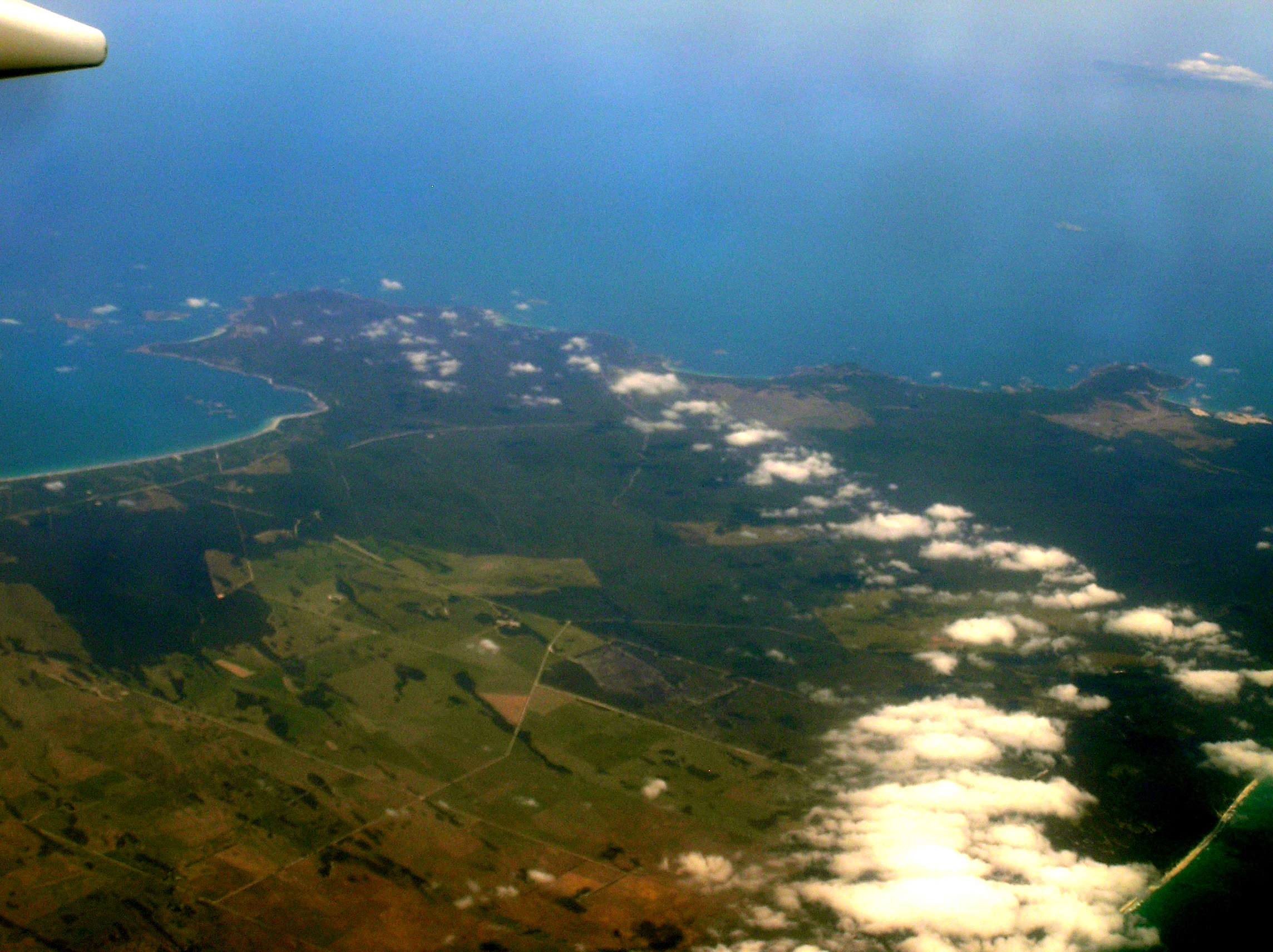 View of North West Flinders island from south east, inclides Sentinel Island North Pasco Island Roydon Island